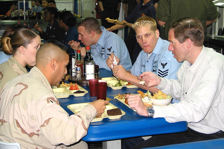 Persian Gulf (Mar. 13, 2003) -- NBC anchorman Brian Williams takes time out to enjoy a meal with Sailors and Marines aboard the amphibious assault ship USS Tarawa (LHA 1). Tarawa is on a scheduled six month deployment operating in support of Operation Enduring Freedom.